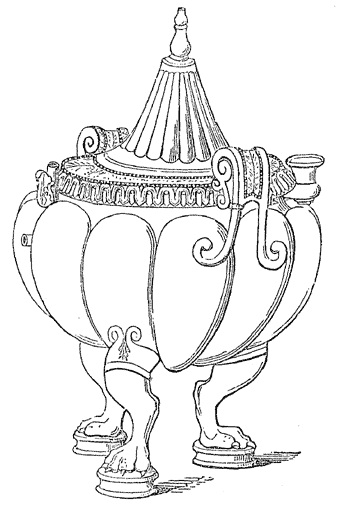 Authepsa - vessel used for heating water or keeping it hot.